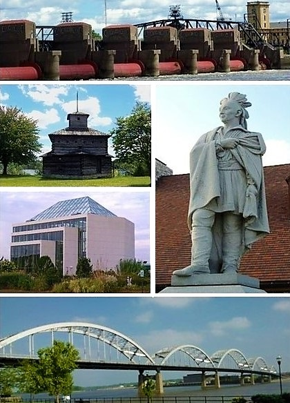 A montage of pictures of the city of Rock Island, Illinois.